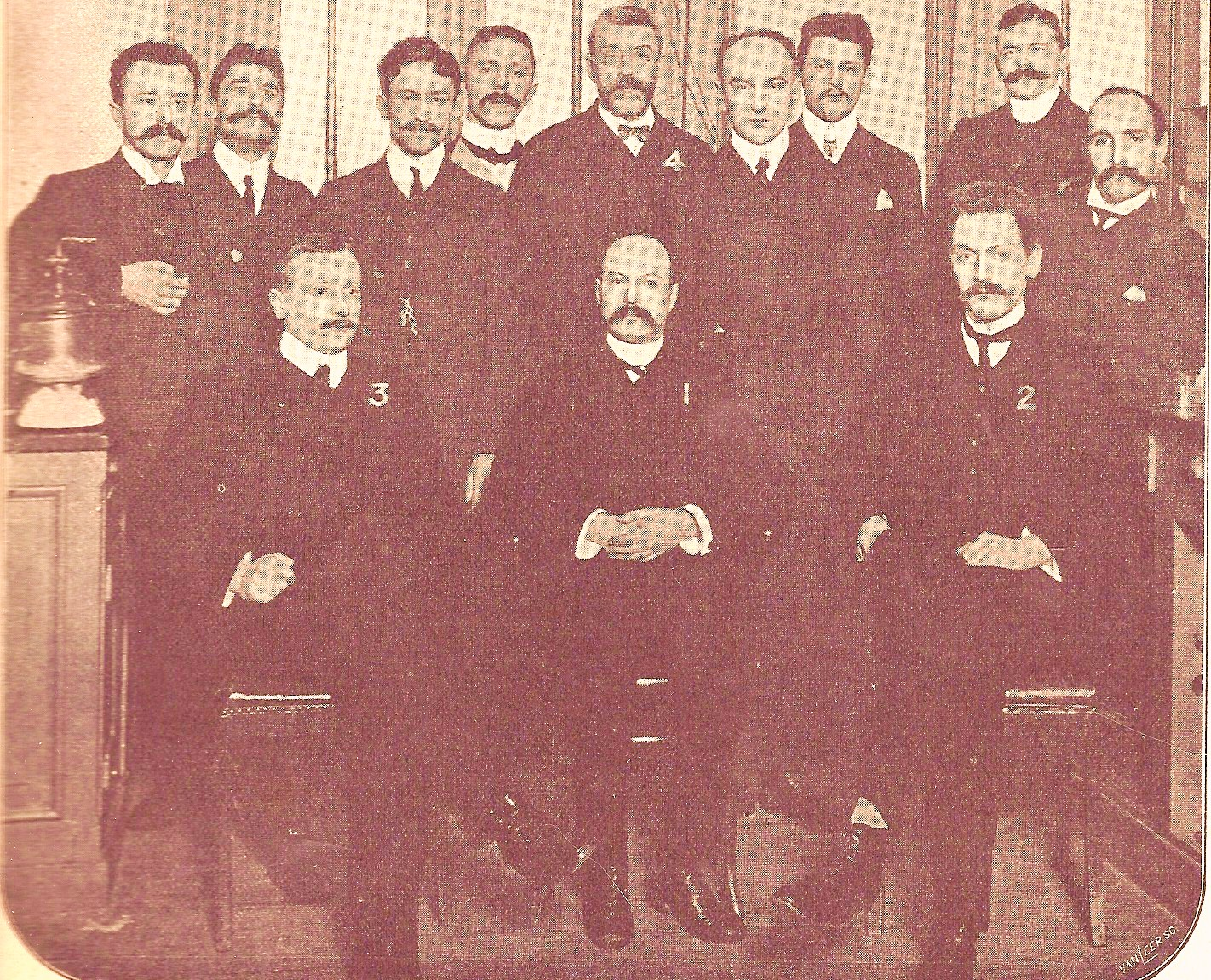 Prof. A.F. Holleman